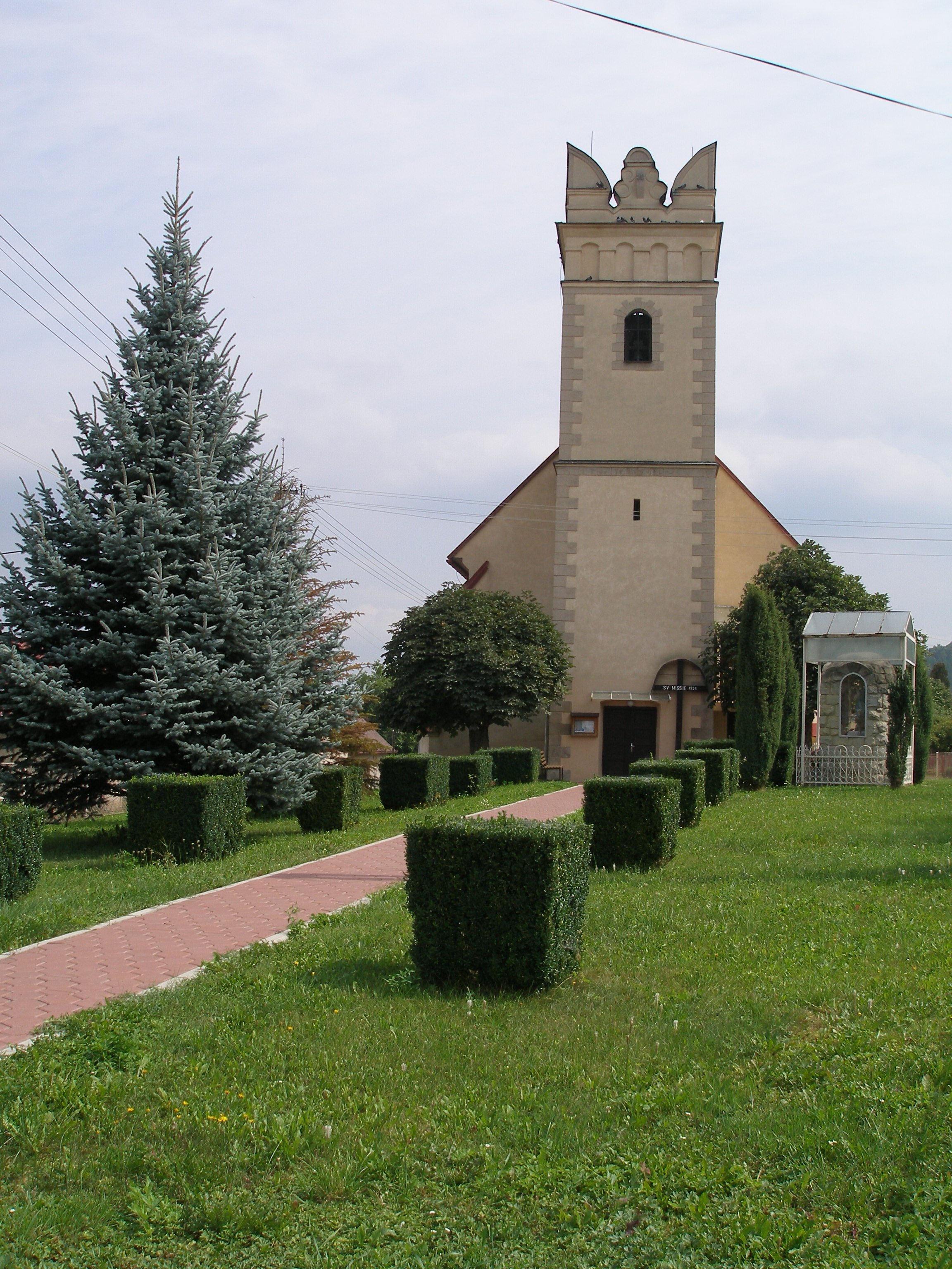 Šarišská obec Chmiňany This medium shows the protected monument with the number 707-299/0 in the Slovak Republic.